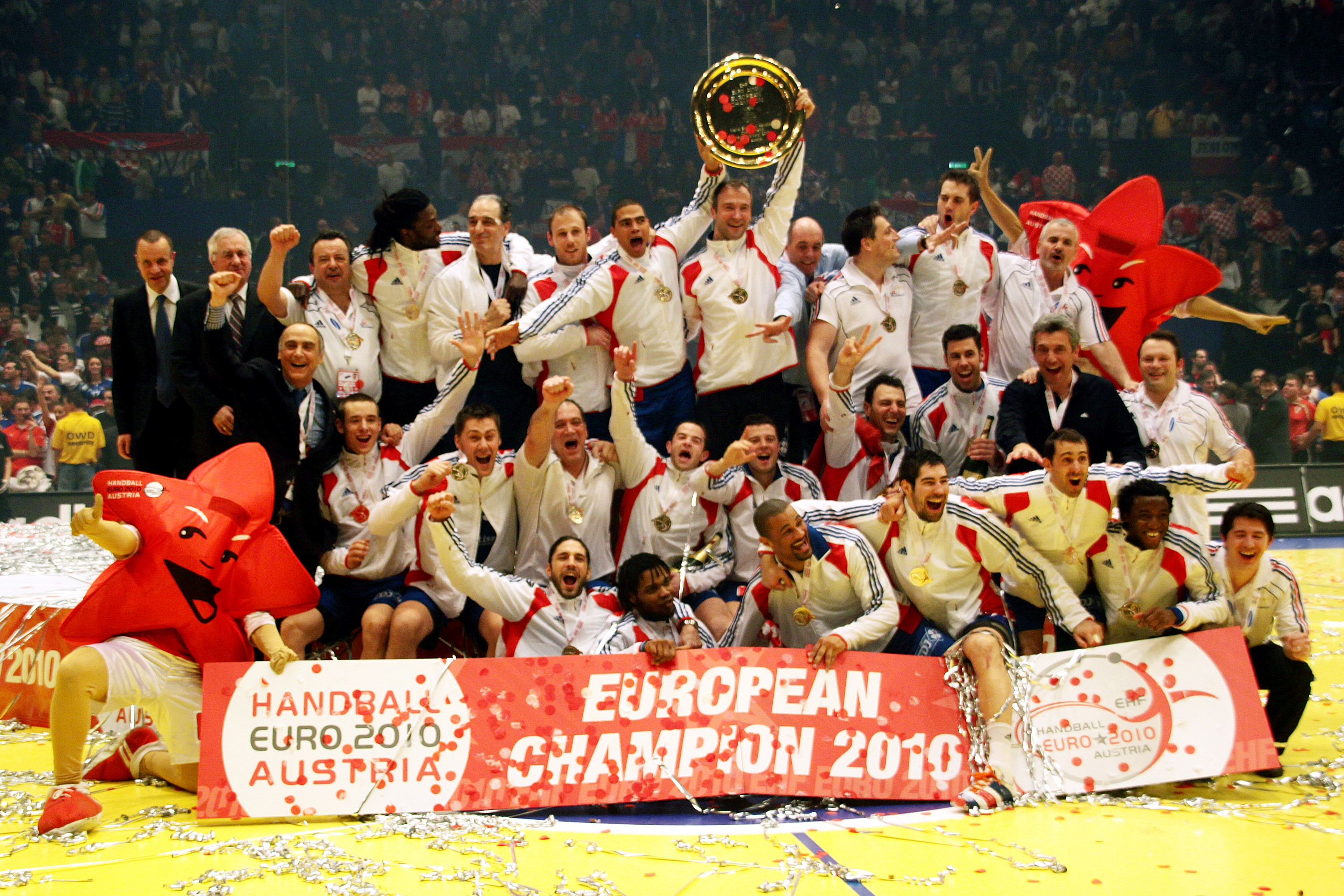 The players of the France national handball team are jubilant about the first place in the 2010 European Men's Handball Championship